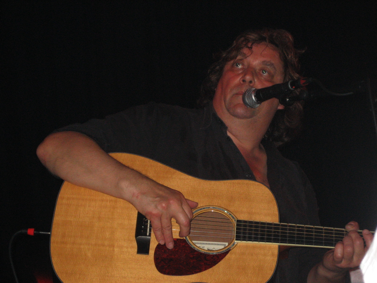 Jackie Leven @ Paradiso, Amsterdam